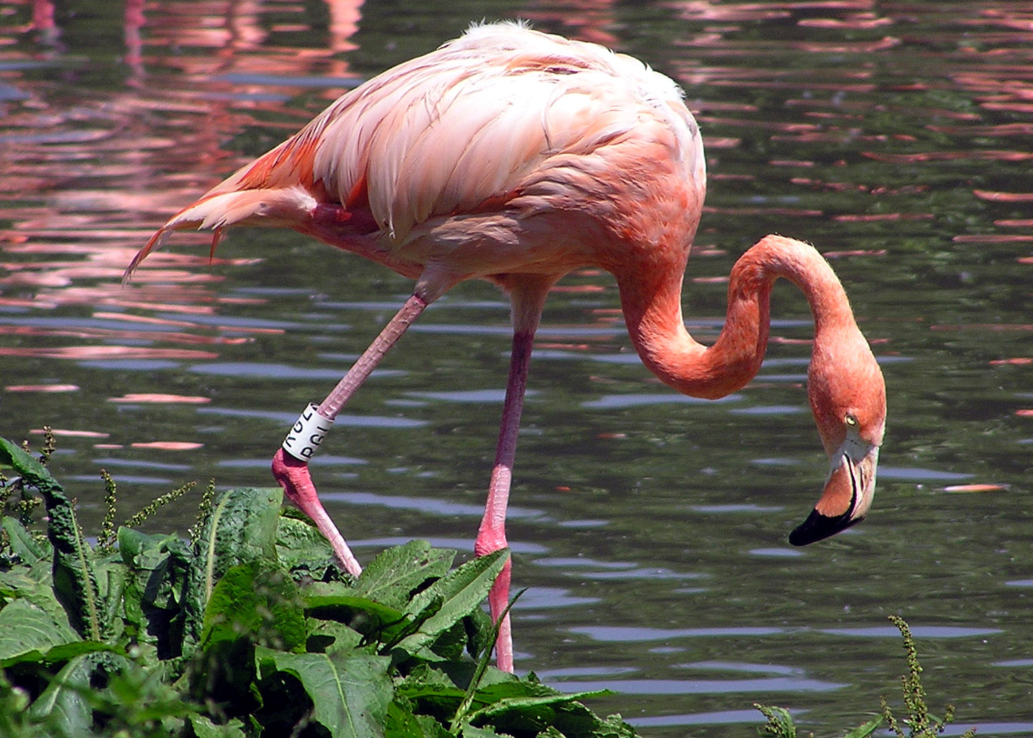 Caribbean Flamingo, also known as the American Flamingo, at Slimbridge Wildfowl and Wetlands Centre, Slimbridge, Gloucestershire, England.